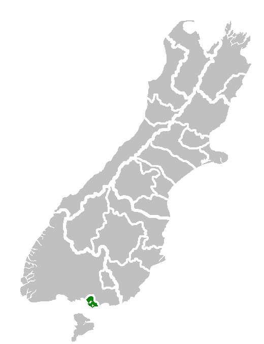 Map of South Island showing location of Invercargill Territorial Authority.